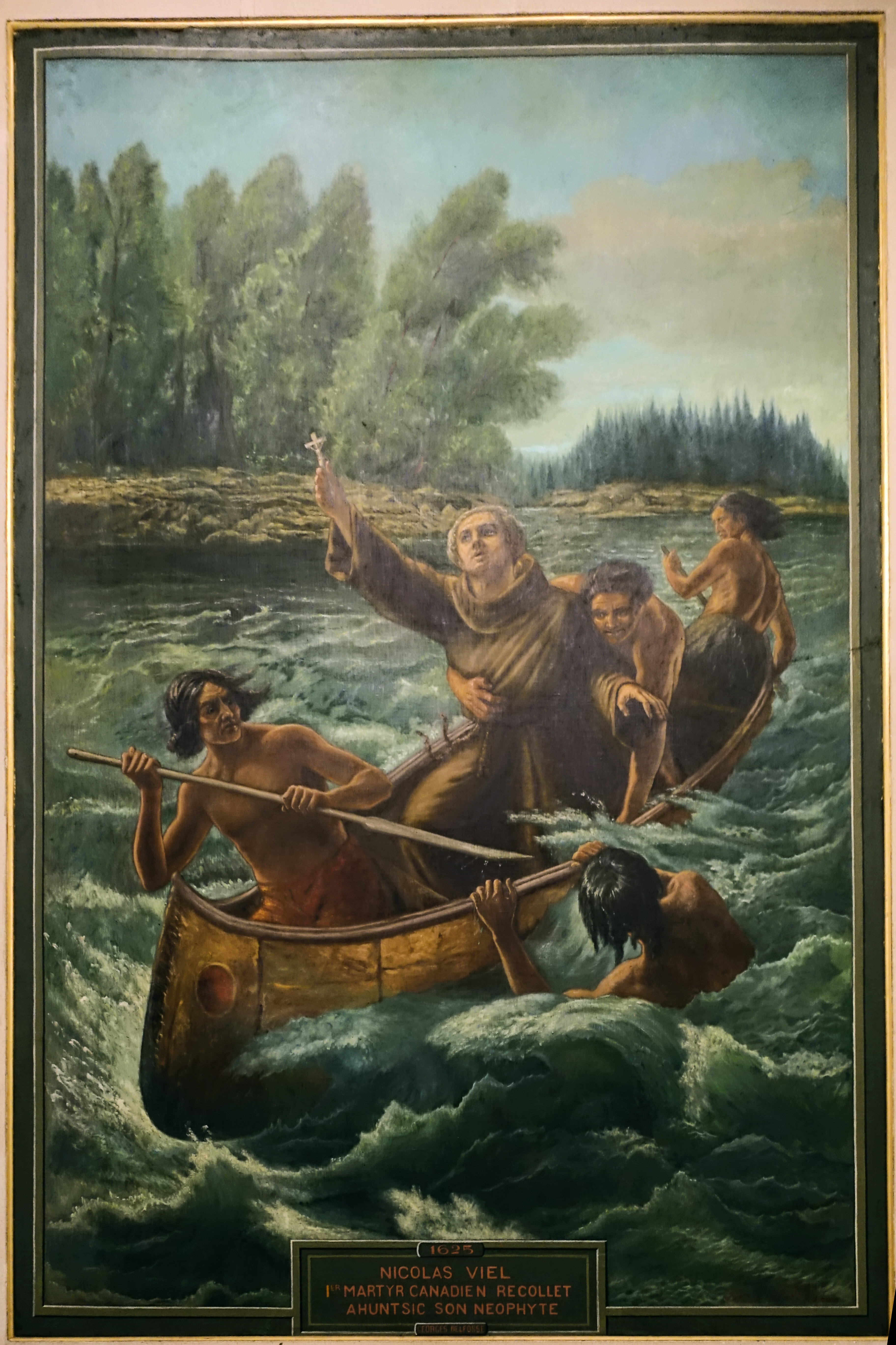 Cathedral-Basilica of Mary, Queen of the World, Montreal. Painting from Georges Delfosse showing the Recollect Nicolas Viel and his "huronized" companion Ahuntsic, with indians in canoe on Rivière des Prairies at the Sault-au-Récollet, where the two men were drowned after an upheaval. The scene, showing an indian grasping Nicolas Viel, reminds the legend attributed to the algonquin chief Tessouat that Viel and Ahuntsic were thrown into water.